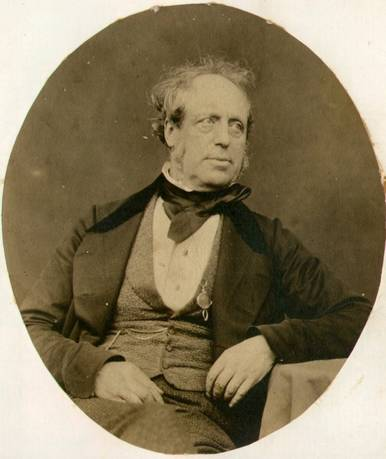 Photographic portrait of the English amateur photographer Peter Wickens Fry, 1798-1860. The photograph was discovered on Page 1 of Jane Martha St. John's photo album by Keith Robinson of Cirencester.